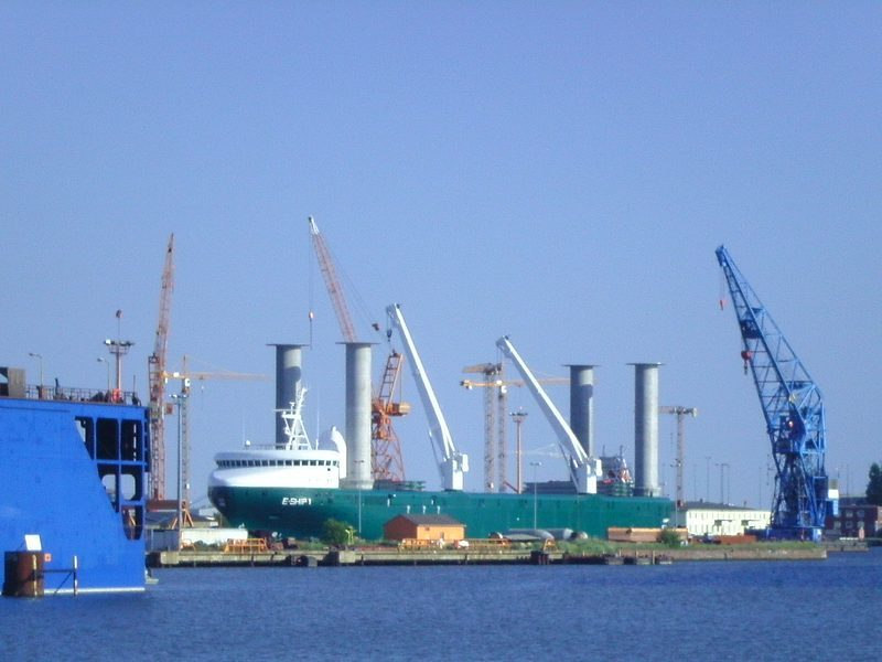 The RoLo cargo ship E-Ship 1 at the Lloyd shipyard in Bremerhaven, Germany